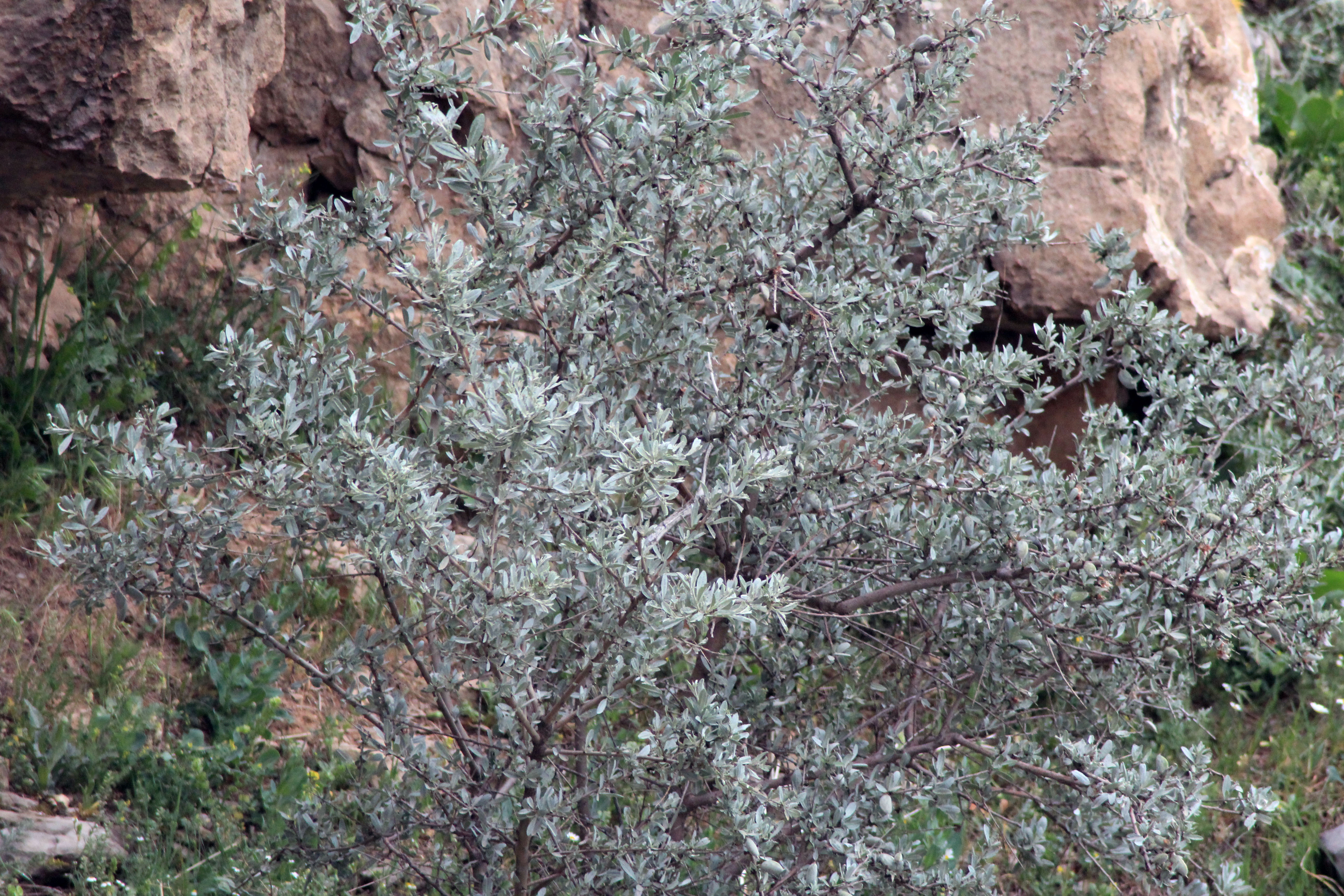 Picture of Prunus scoparia tree taken in Gilazard valley in mountain Piramagrun Kurdistan - Sulaimani I uploaded this picture because the article about Prunus scoparia does not have any pictures.